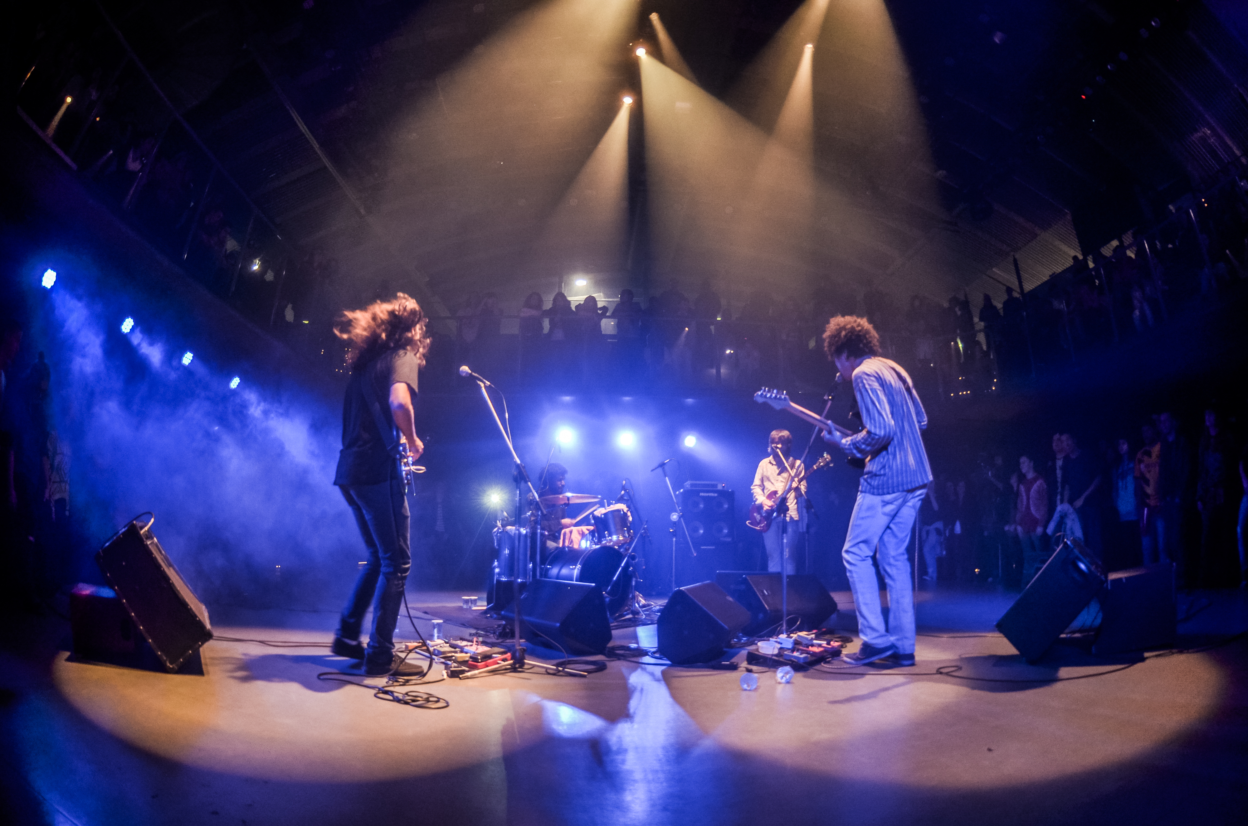 Show da banda Boogarins durante show em São Paulo.